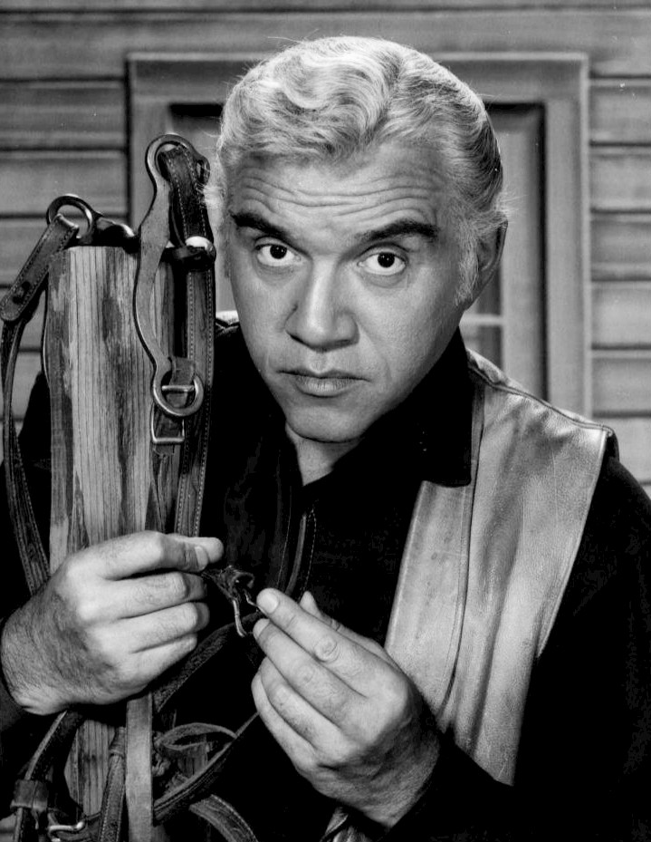 Photo of Lorne Greene as Ben Cartwright from the television program Bonanza.